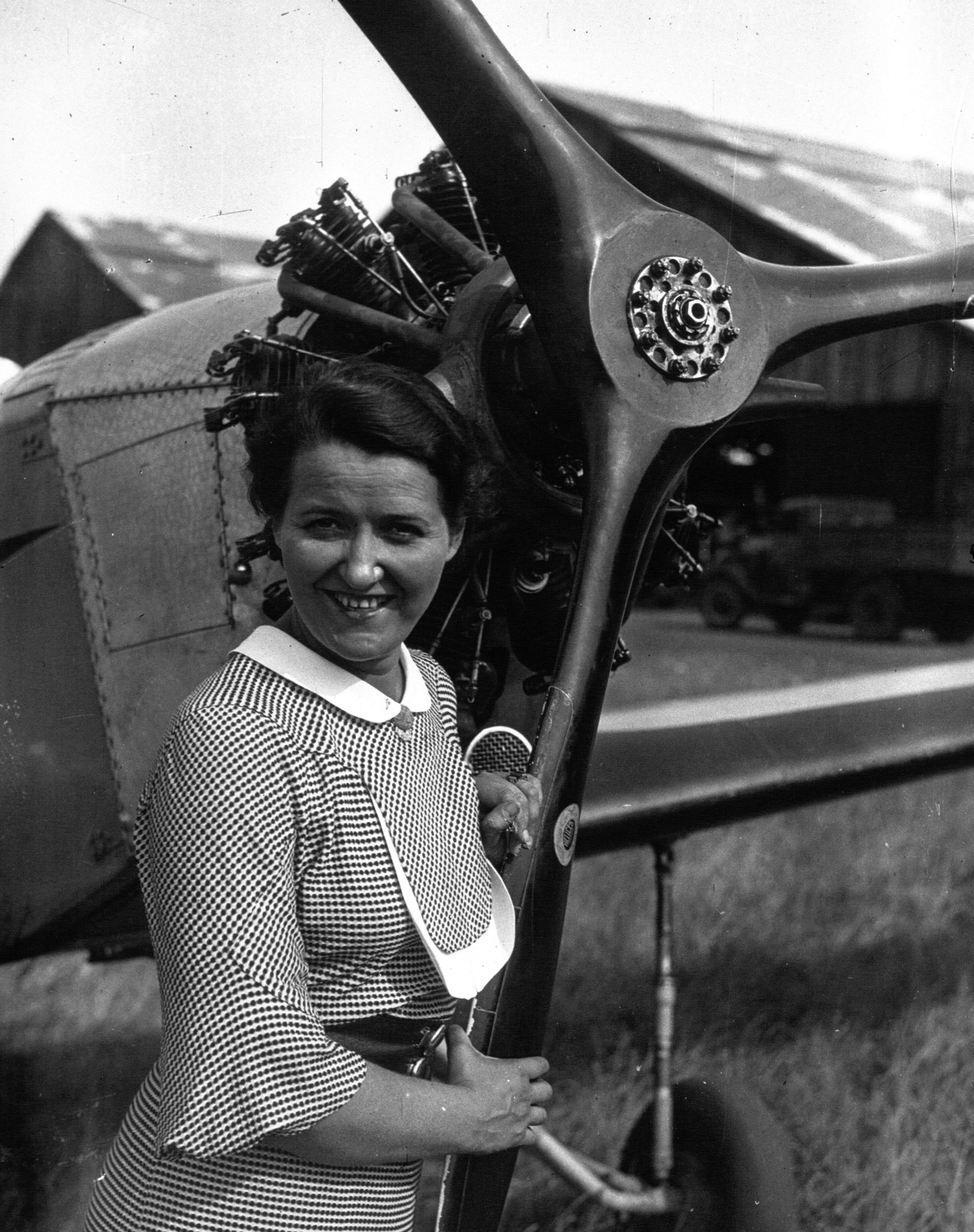 French aviation pioneer Maryse Hilsz (1903–1945) holding the propeller of her Mauboussin M.122 is about to attempt a new flight altitude record in 1935.